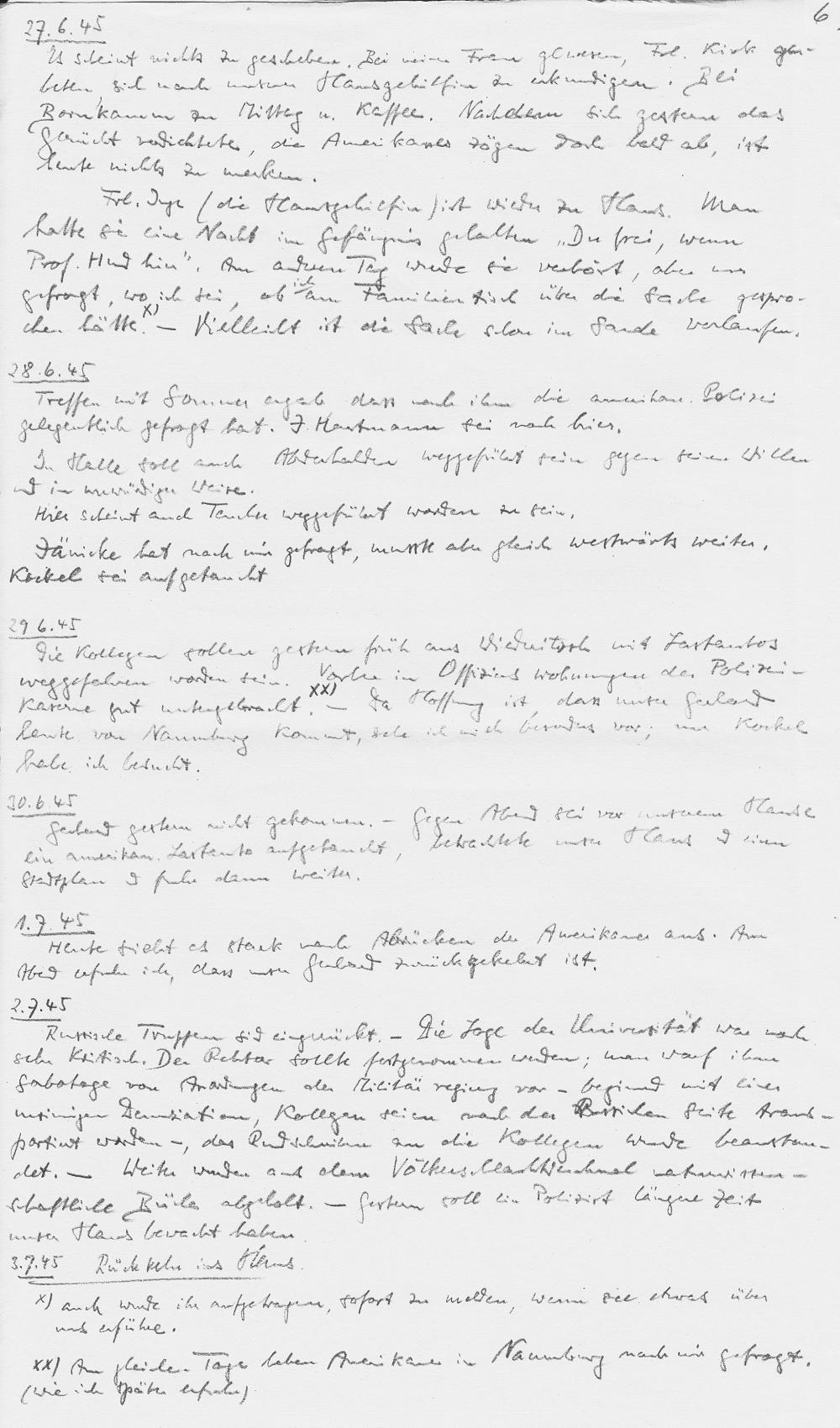 Page 6 of a manuscript by Friedrich Hund, July 1945 at Leipzig (departure of the Americans).